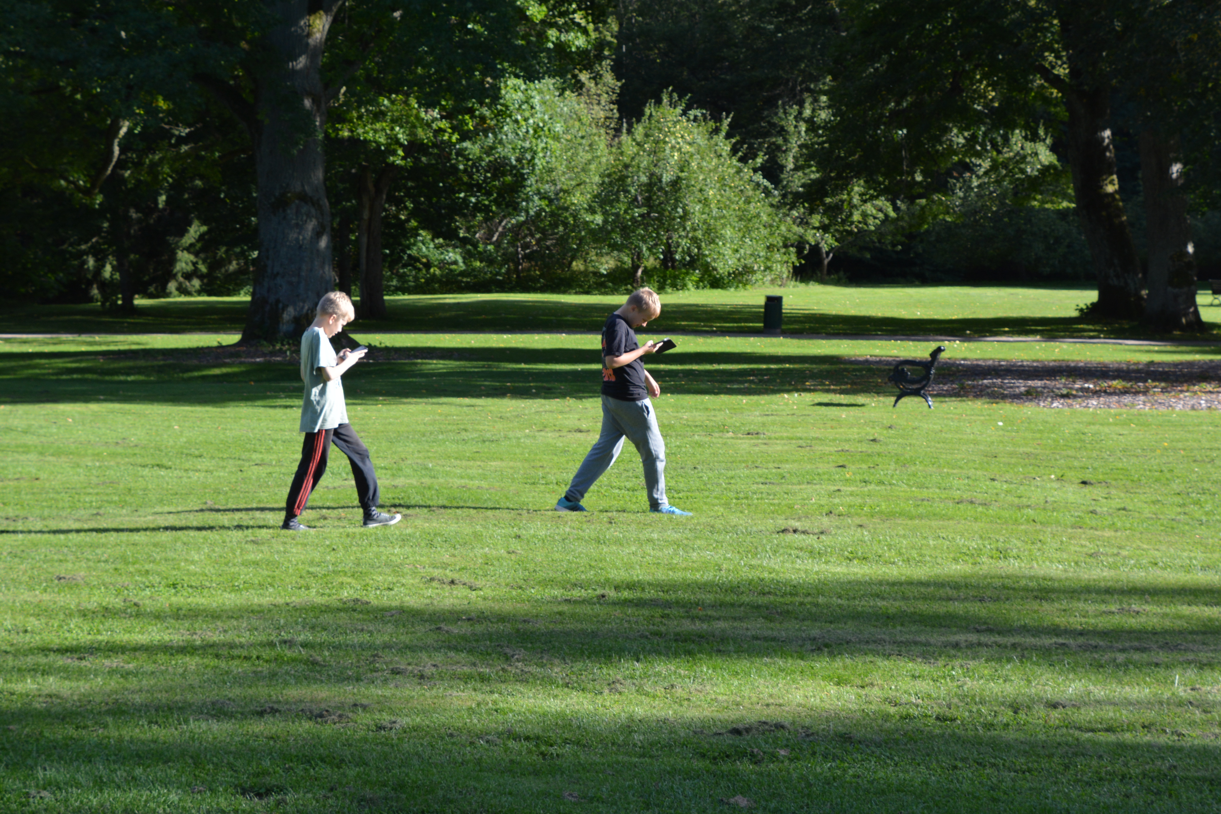 Pokémon Go på Träskända gård i Esbo, Finland